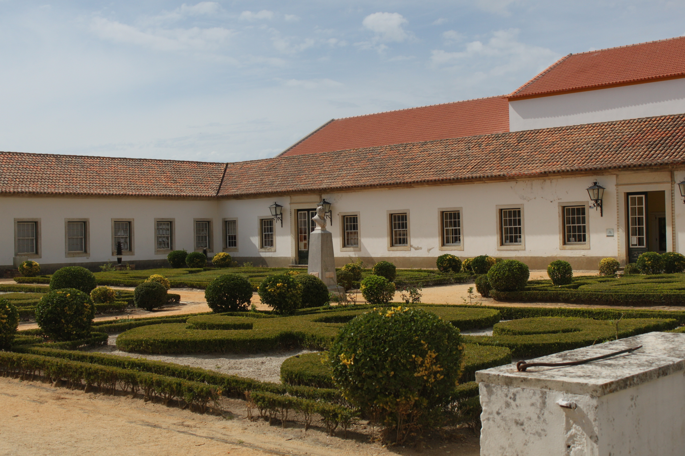 This file was uploaded for Wiki Loves Monuments in Portugal with the unique identifier 97008631.